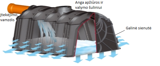 Infiltration tunnel